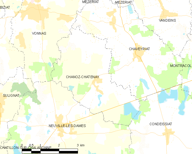 Map of French commune: Chanoz-Châtenay Map commune FR insee code 01084.png